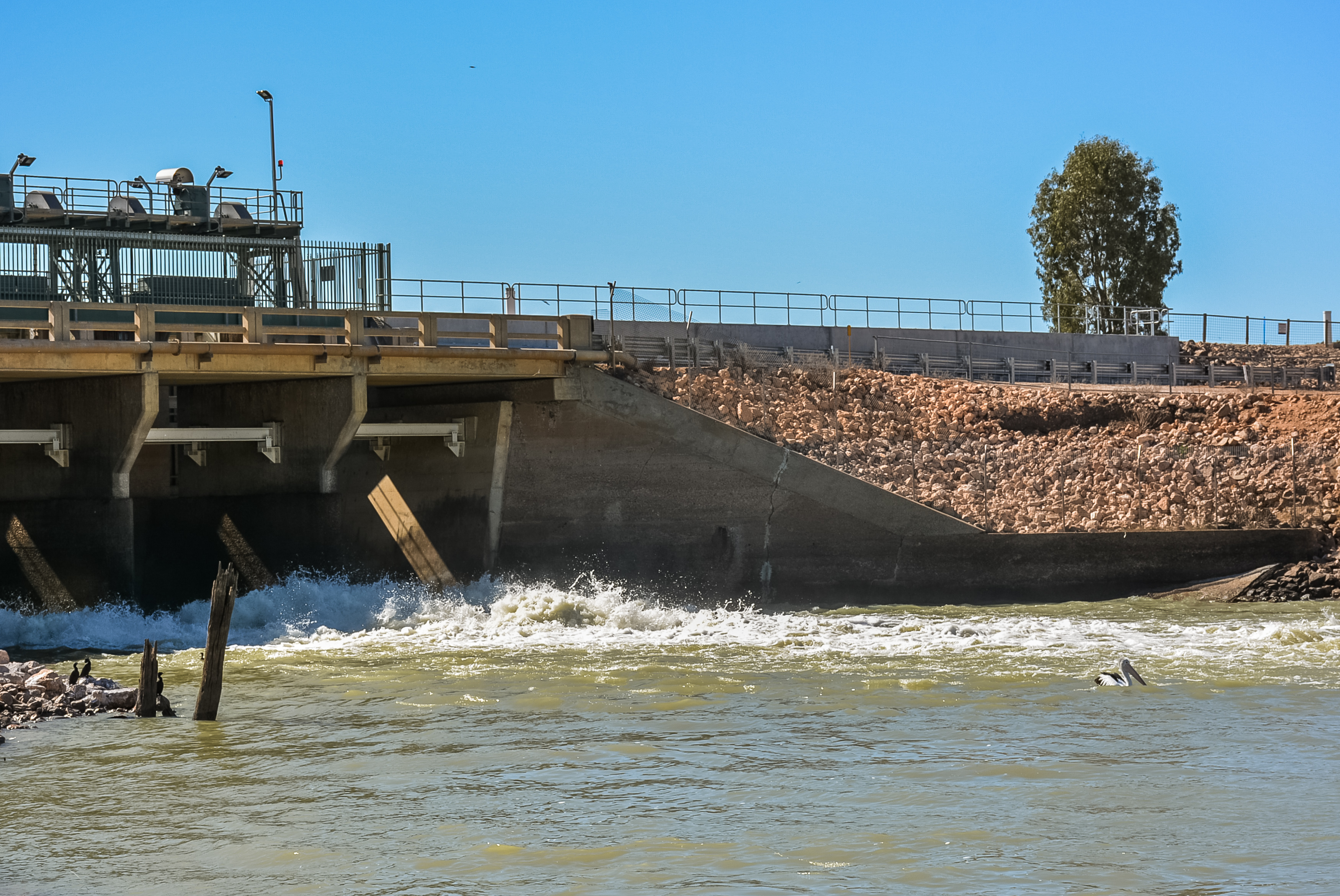 Water entering the Rufus River from Lake Victoria, on its way to join the Murray River. A pelican swims in the current.